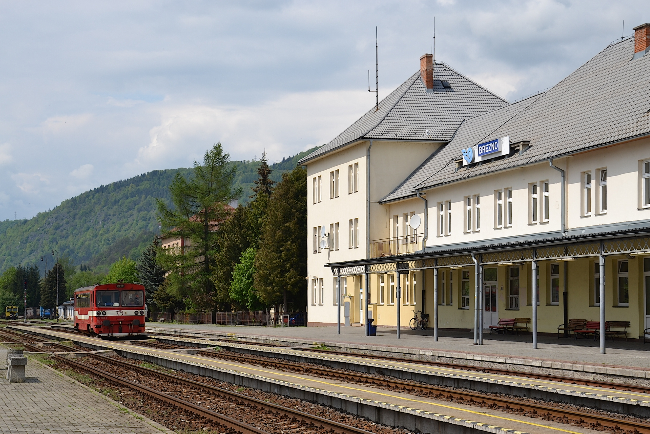 Brezno, Sk - train station